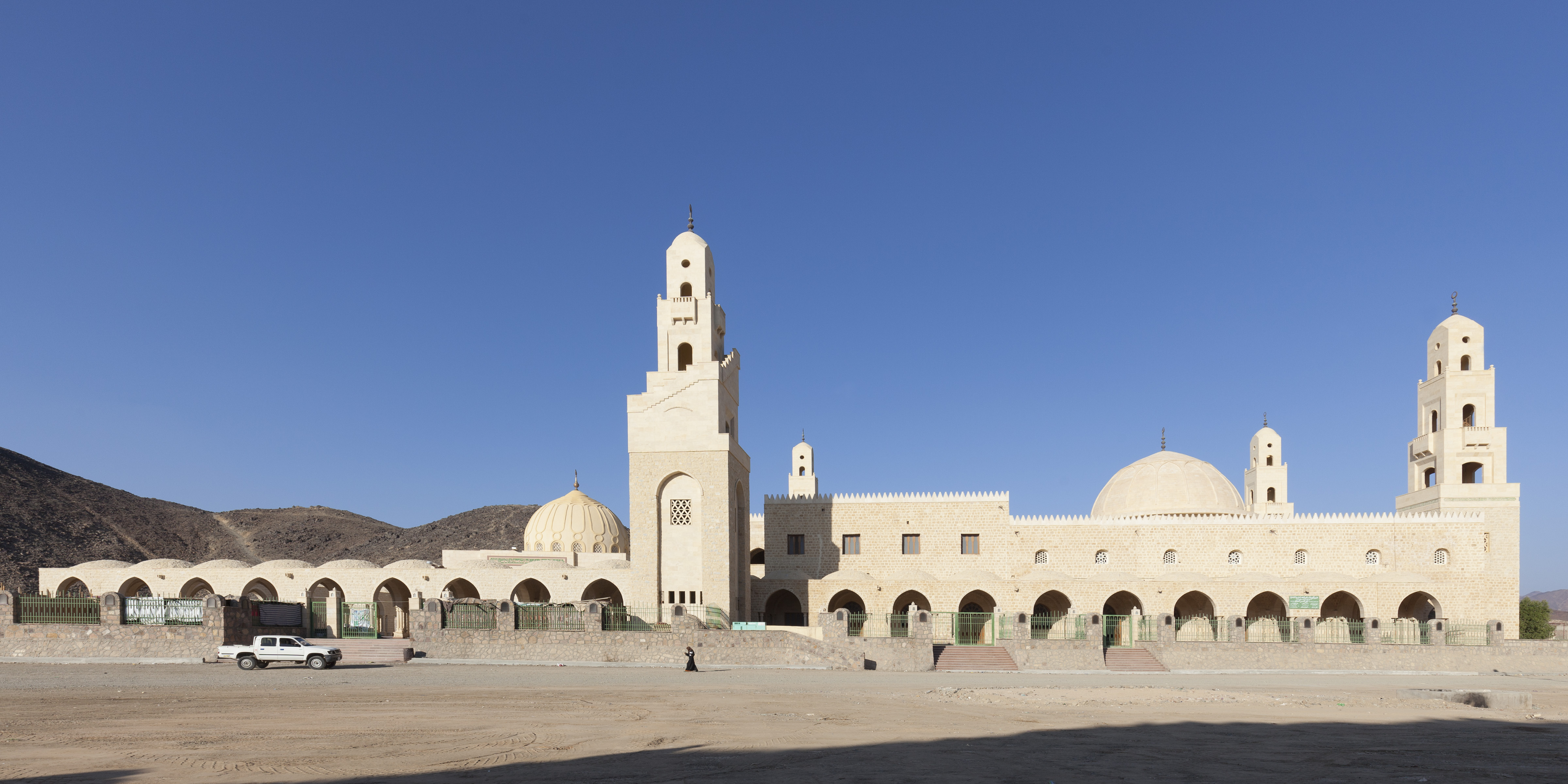 Mausoleum and mosque of Abū al-Ḥasan ʿAlī al-Shādhilī in Humaithara in Egypt